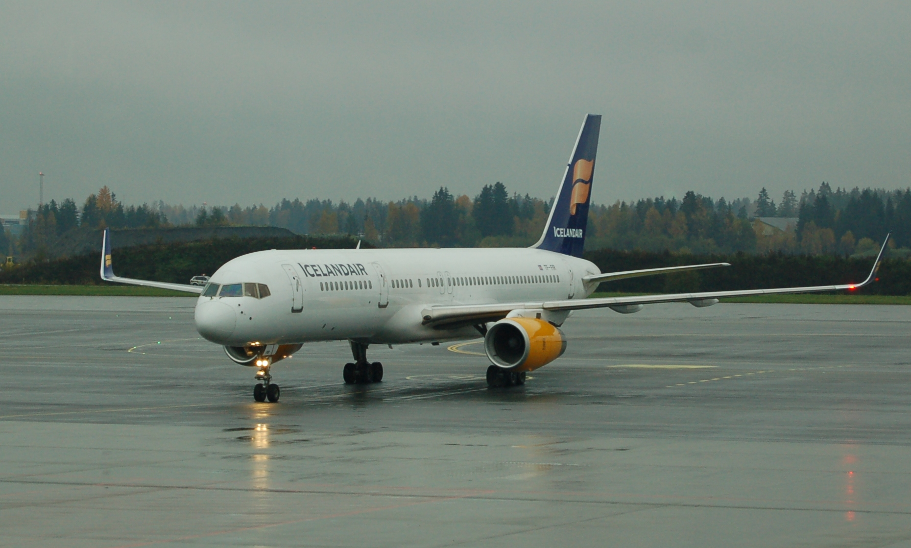 Icelandair Boeing 757-256 TF-FIR at Oslo Airport, Gardermoen